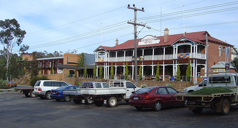 Taken by JAW 17th October 2005 Pemberton, Western Australia